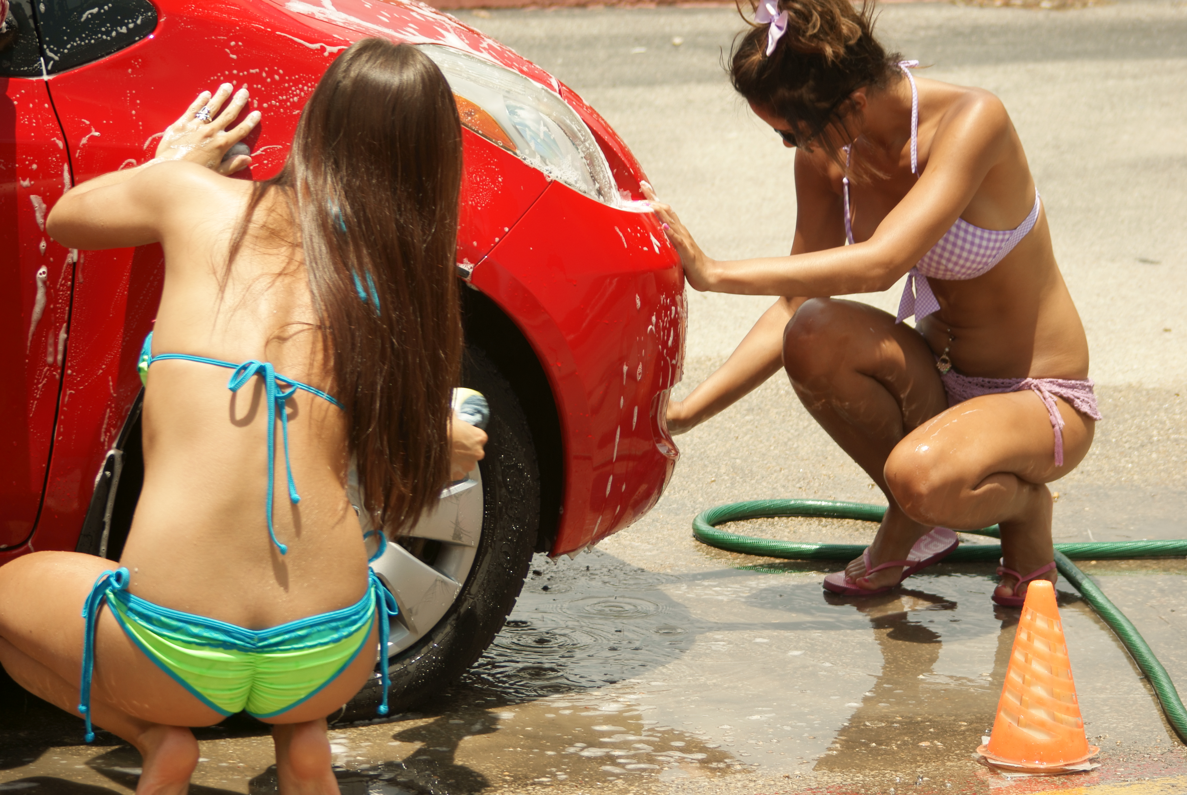 Twin Peaks Round Rock Bikini Car Wash